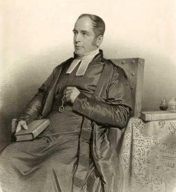 This picture was marked May 18, 1850. 19th century photo of a Victorian cleric.